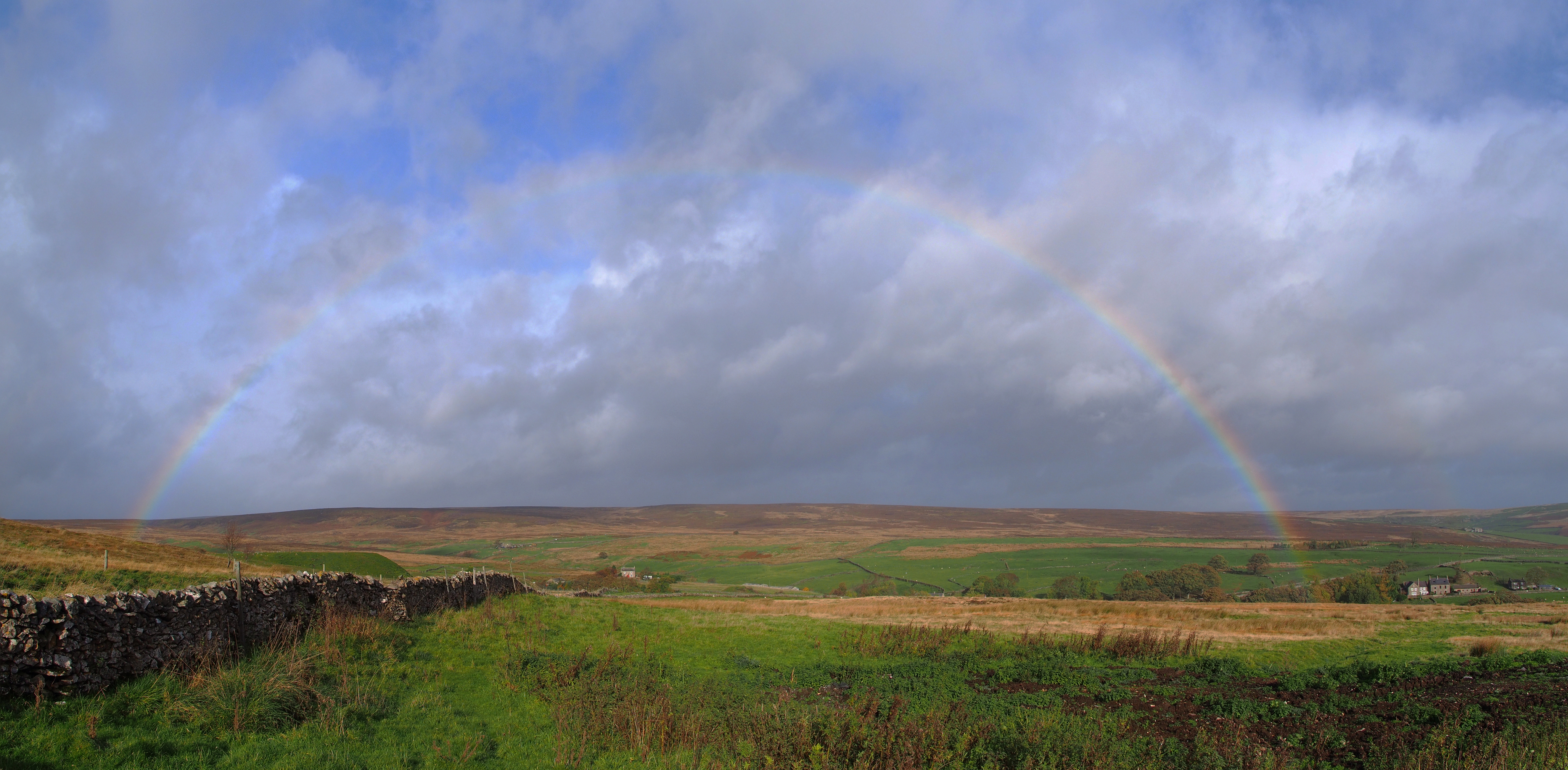 Rainbow over Washfold, North Yorkshire